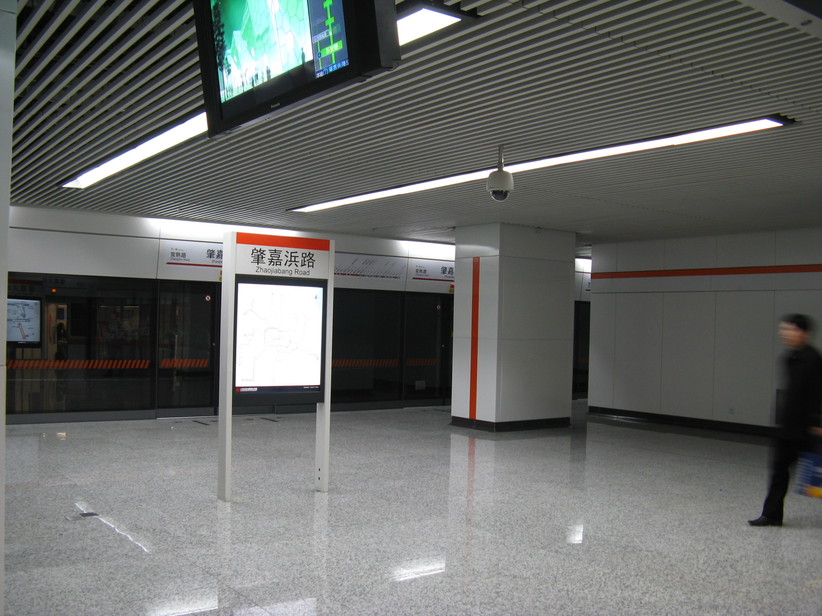 Zhaojiabang Road Station Line7 Shanghai Metro